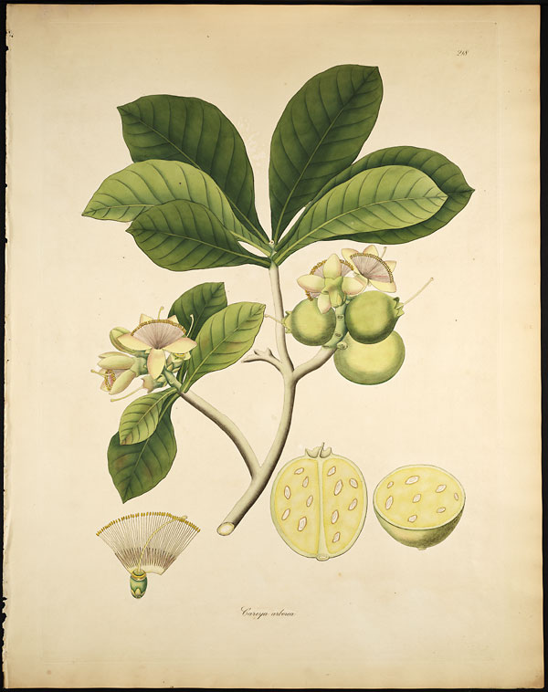 Careya arborea, the 'Slow Match Tree.'